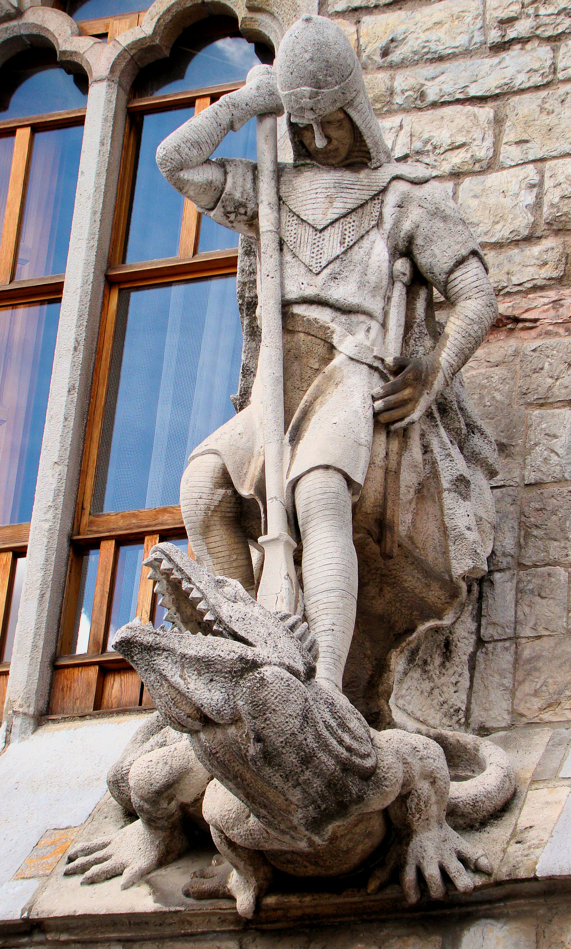 Detail above the entrance to Casa Botines by Gaudí, St George slaying the dragon.